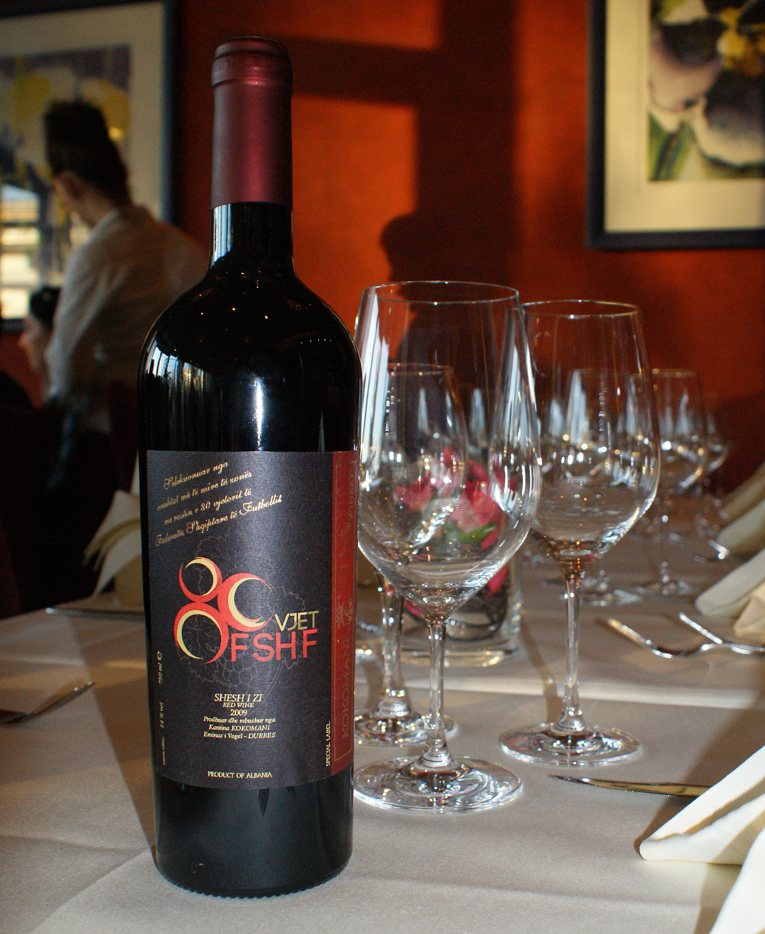 Bottle of Albanian Wine: Sheshi i Zi – jubilee filling for the 80th anniversirary of the Albanian Football Association